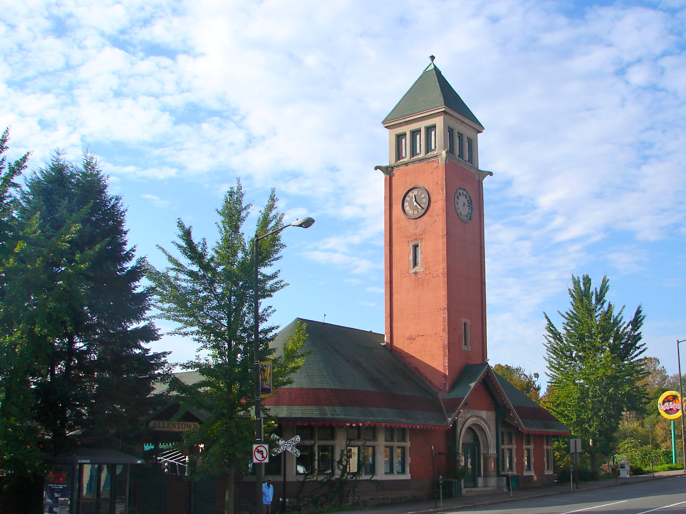 Allentown, Pennsylvania railroad station, about 300 W Hamilton